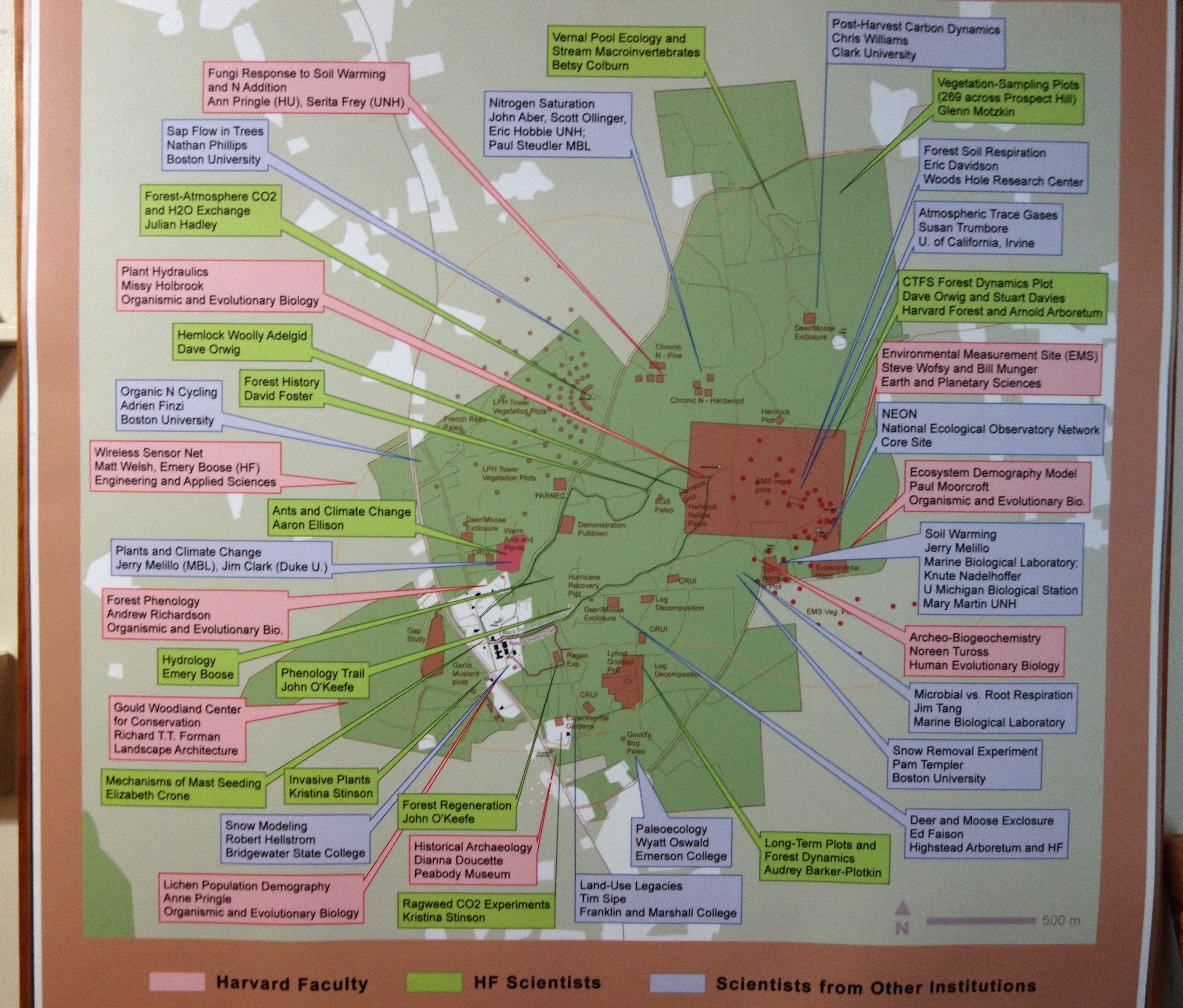 Exhibit in the Fisher Museum (Harvard Forest), Petersham, Massachusetts, USA. Photography was permitted without restriction.